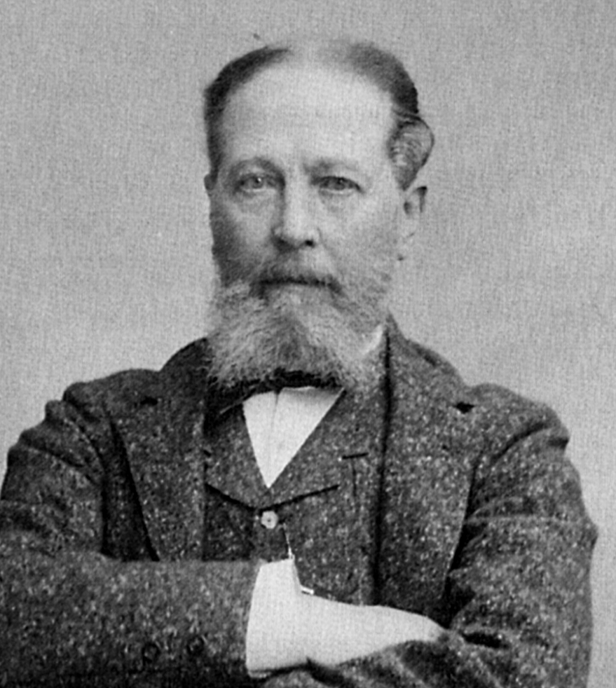 Photo of swedish painter August Malmström